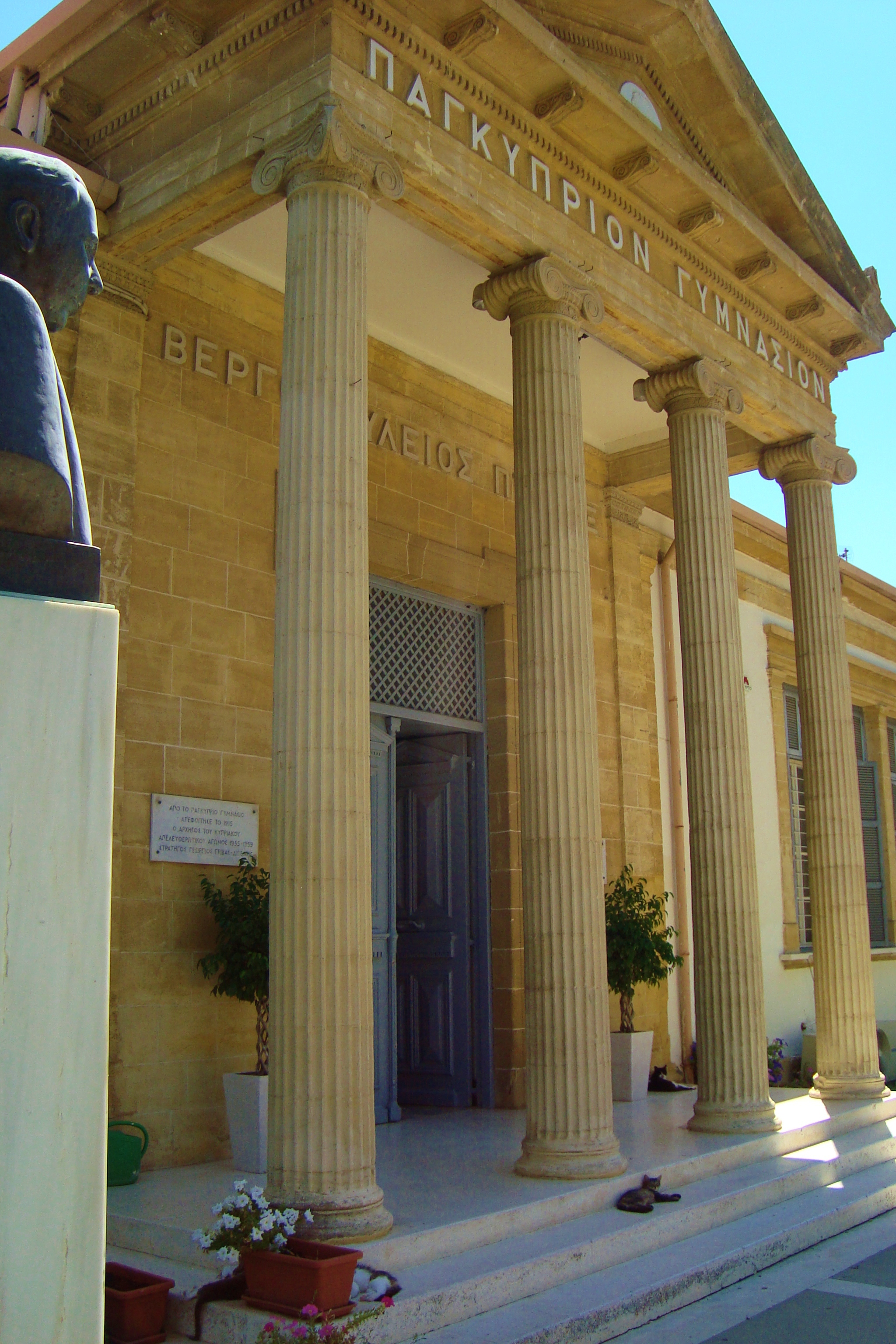 Pagkiprio historic school